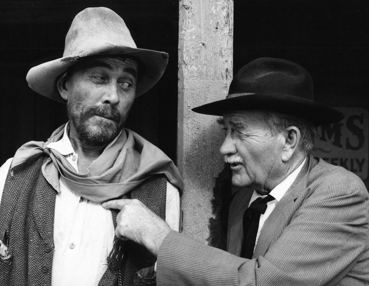 Photo of Ken Curtis (Festus Hagen) and Milburn Stone (Doc Adams) from the television program Gunsmoke.